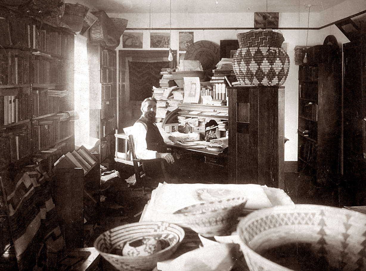 George Wharton James (1858-1923), American writer.